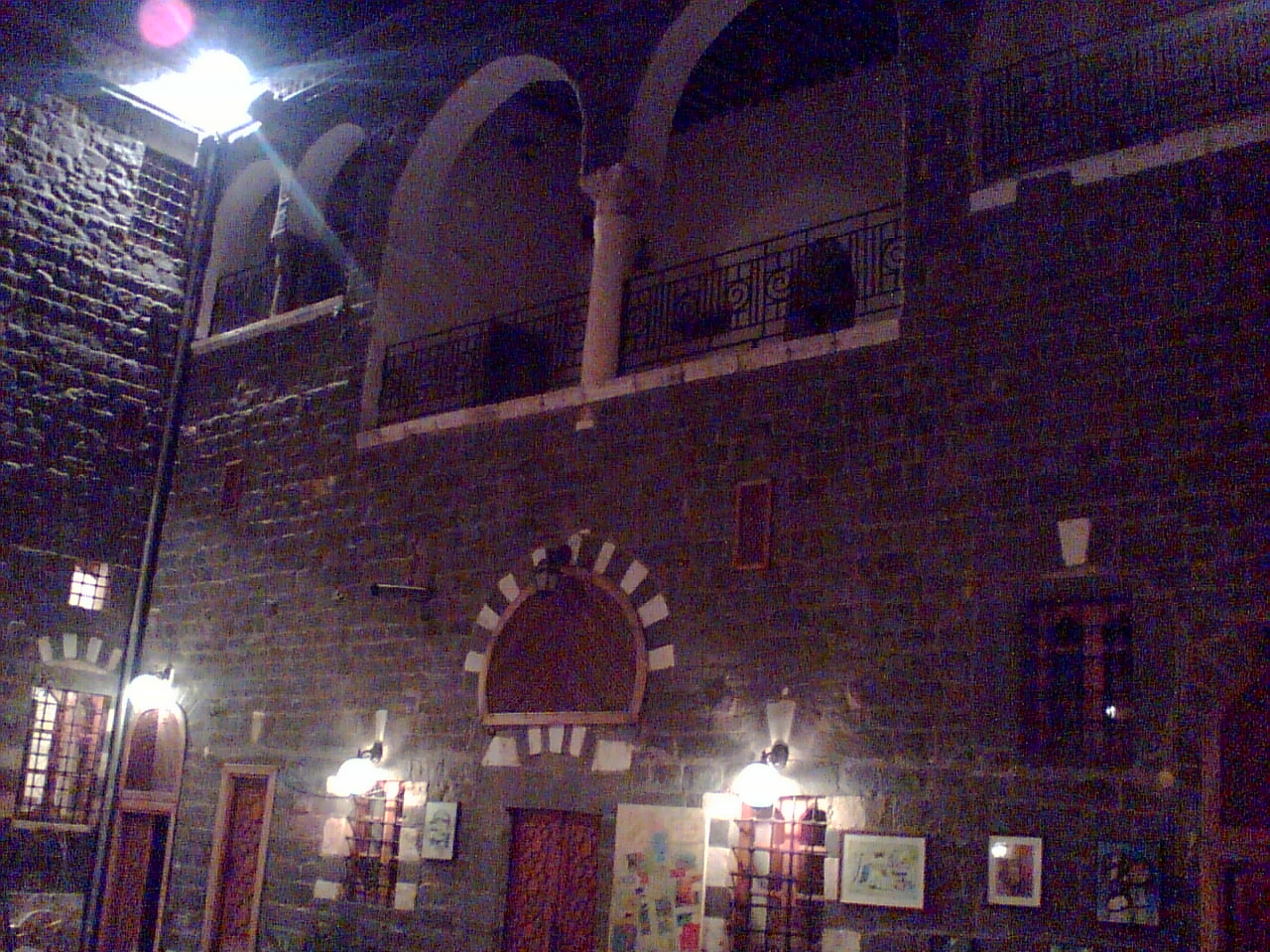 Al-Zehrawi Palace is a sign of old architecture in Homs with its decorated doors and windows